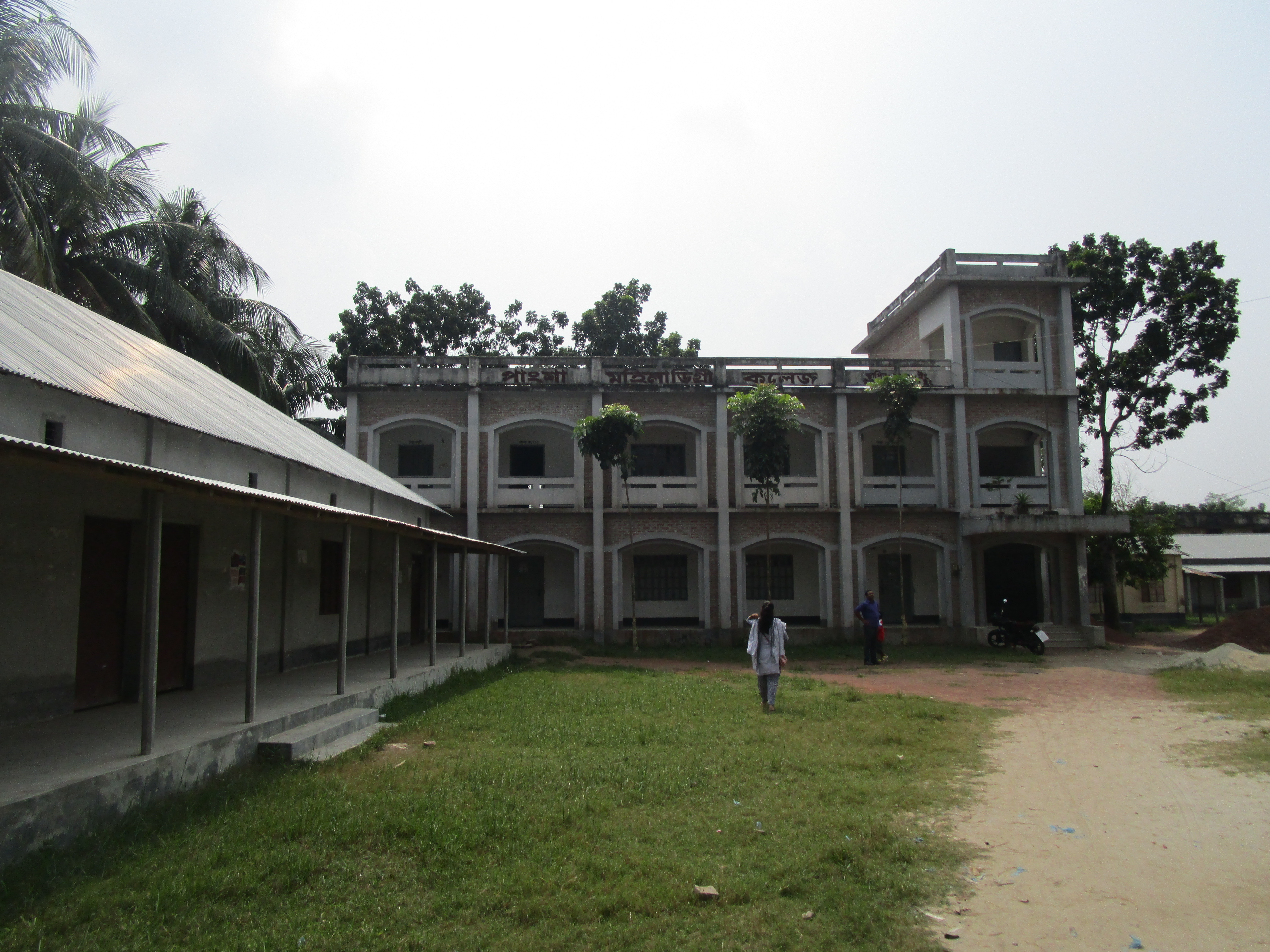 Pangsha Womens College building.